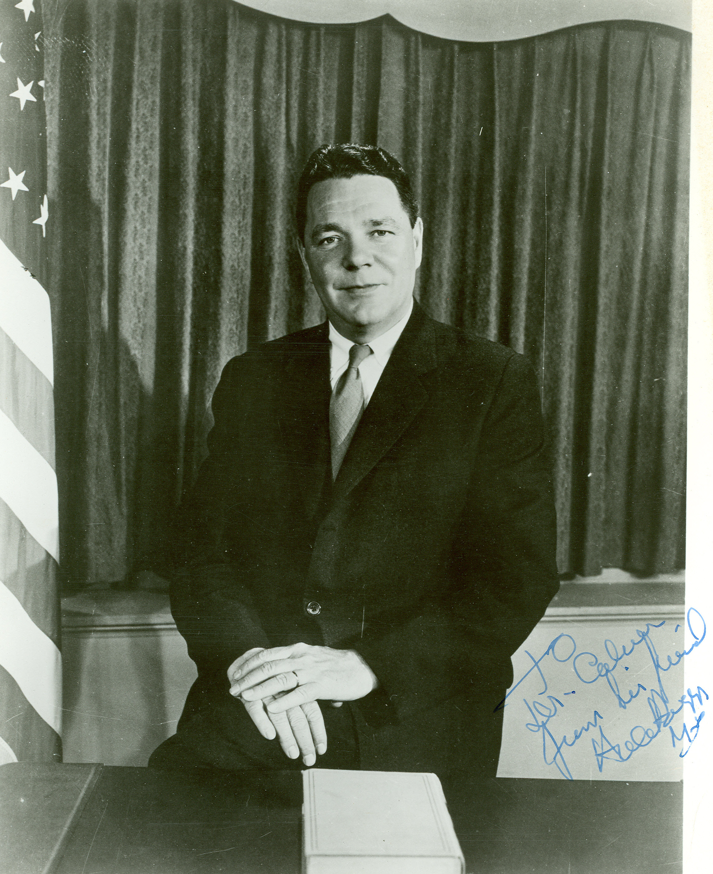 Congressman Hale Boggs of Louisiana, House Majority Whip 1962–1971, House Majority Leader 1971–1973